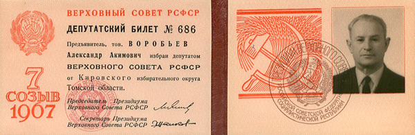 Identity cards of the people's Deputy of the Supreme Council of the RSFSR, 7 th convocation, 1967 y. - Russian Soviet Federative socialist Republic.